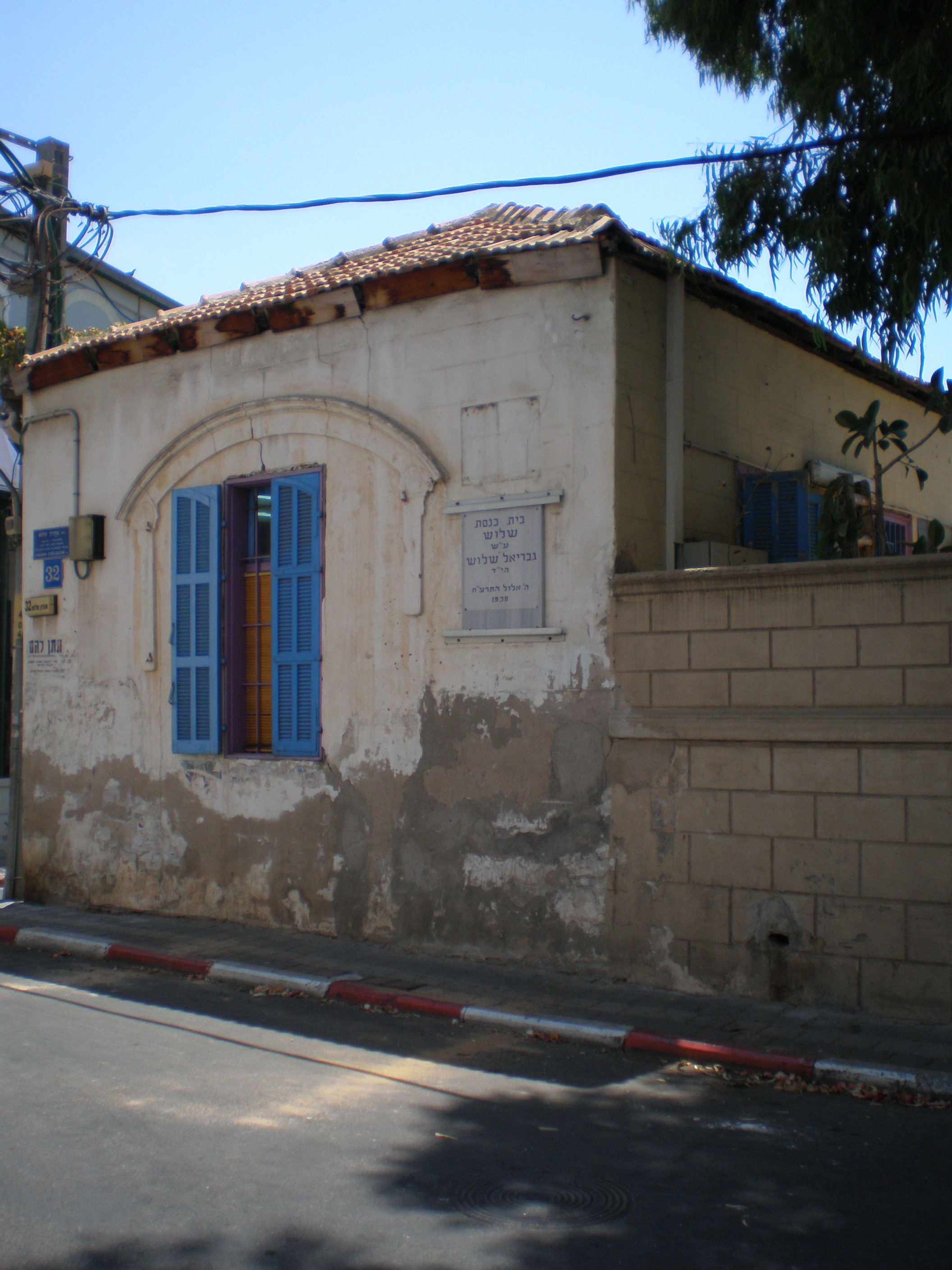 Shalush synagogue, Neve Tzedek, Tel Aviv, Israel.